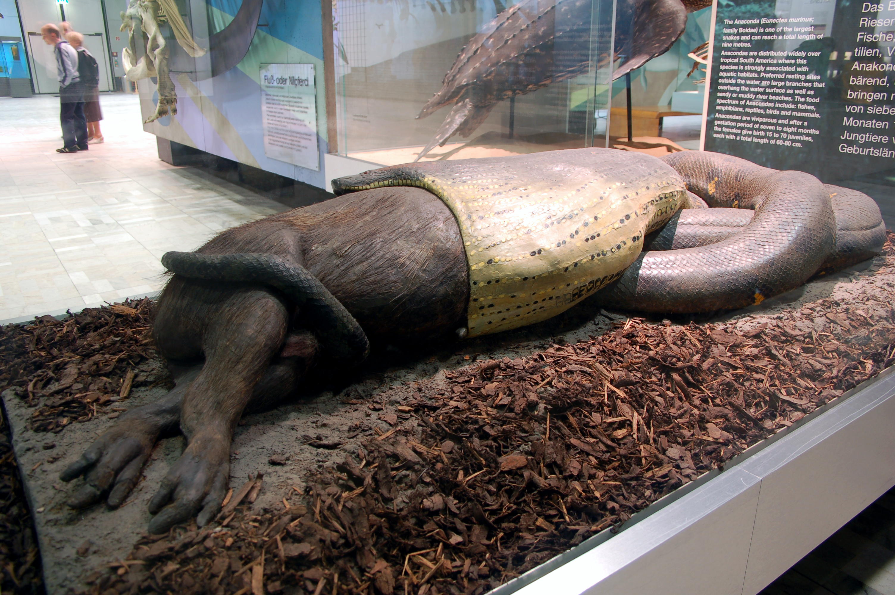 Green Anaconda (Eunectes murinus) devours a capybara (Hydrochoerus hydrochaeris). Exhibit in the Senckenberg Museum in Frankfurt am Main.